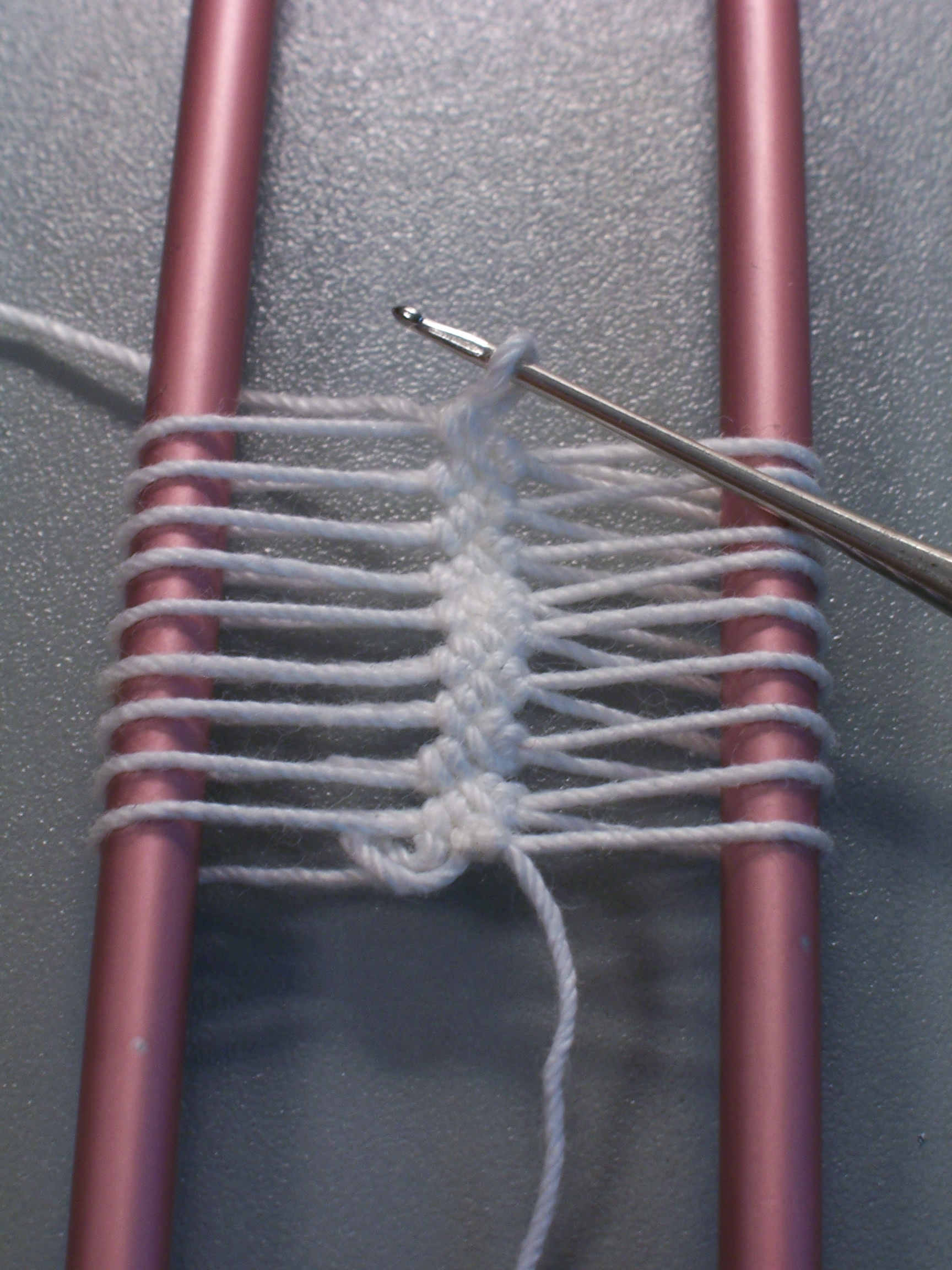 An example of Hairpin crochet lace. This strip of lace must be removed from the frame before it may be used.